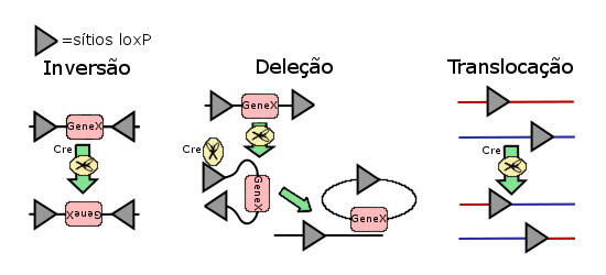 Scheme, in portuguese, of some of the possible outcomes of recombination by Cre recombinase.